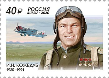 Ivan Kozhedub